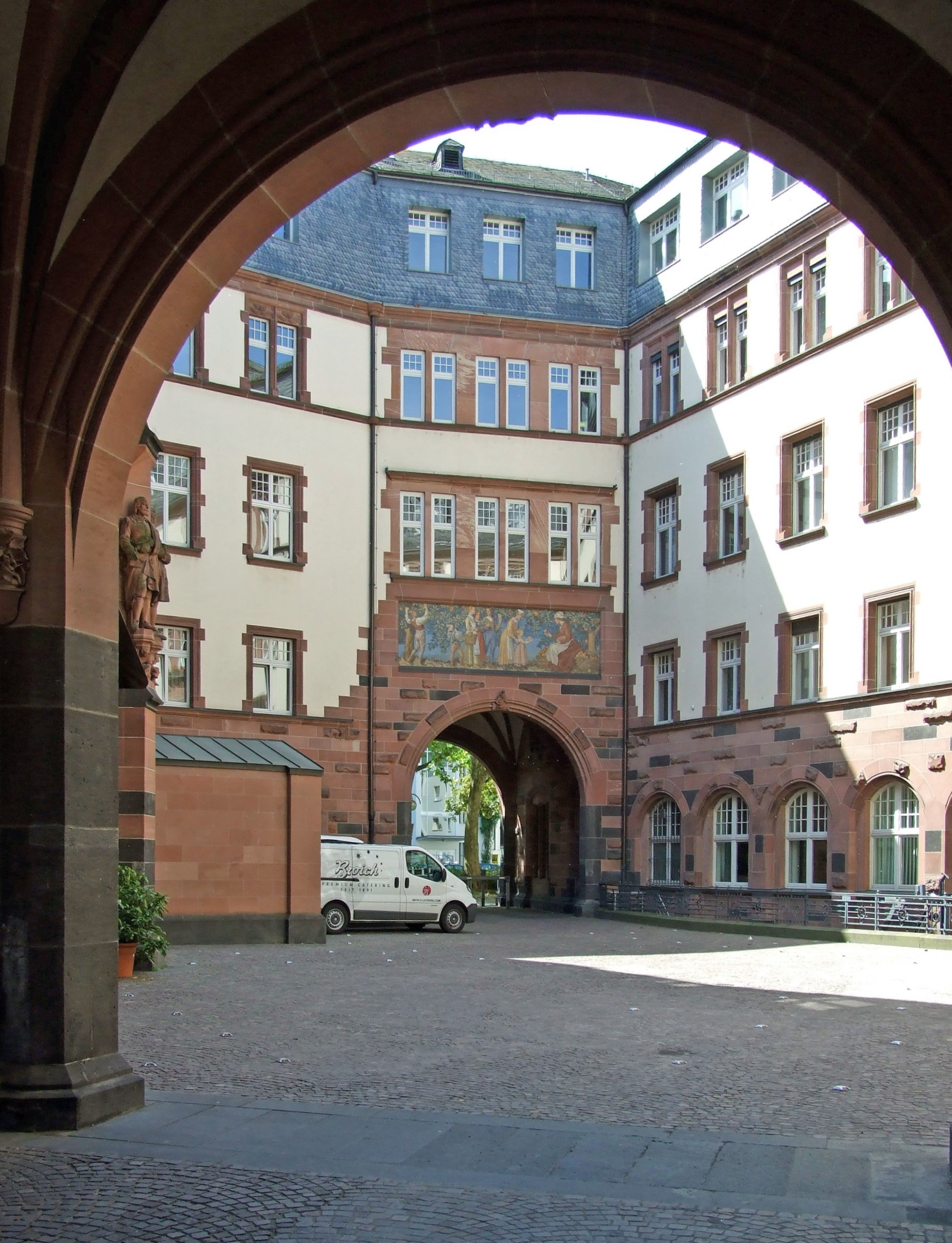 One of the inner courtyard of "Roemer", view from "Paulsplatz" to "Limpurgergasse", Frankfurt am Main-Altstadt